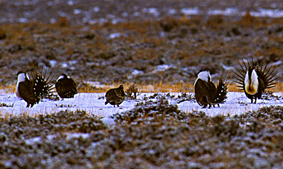 Sage Grouse at lek - Colorado Sage Grouse at lek - Colorado - USA_99 0004